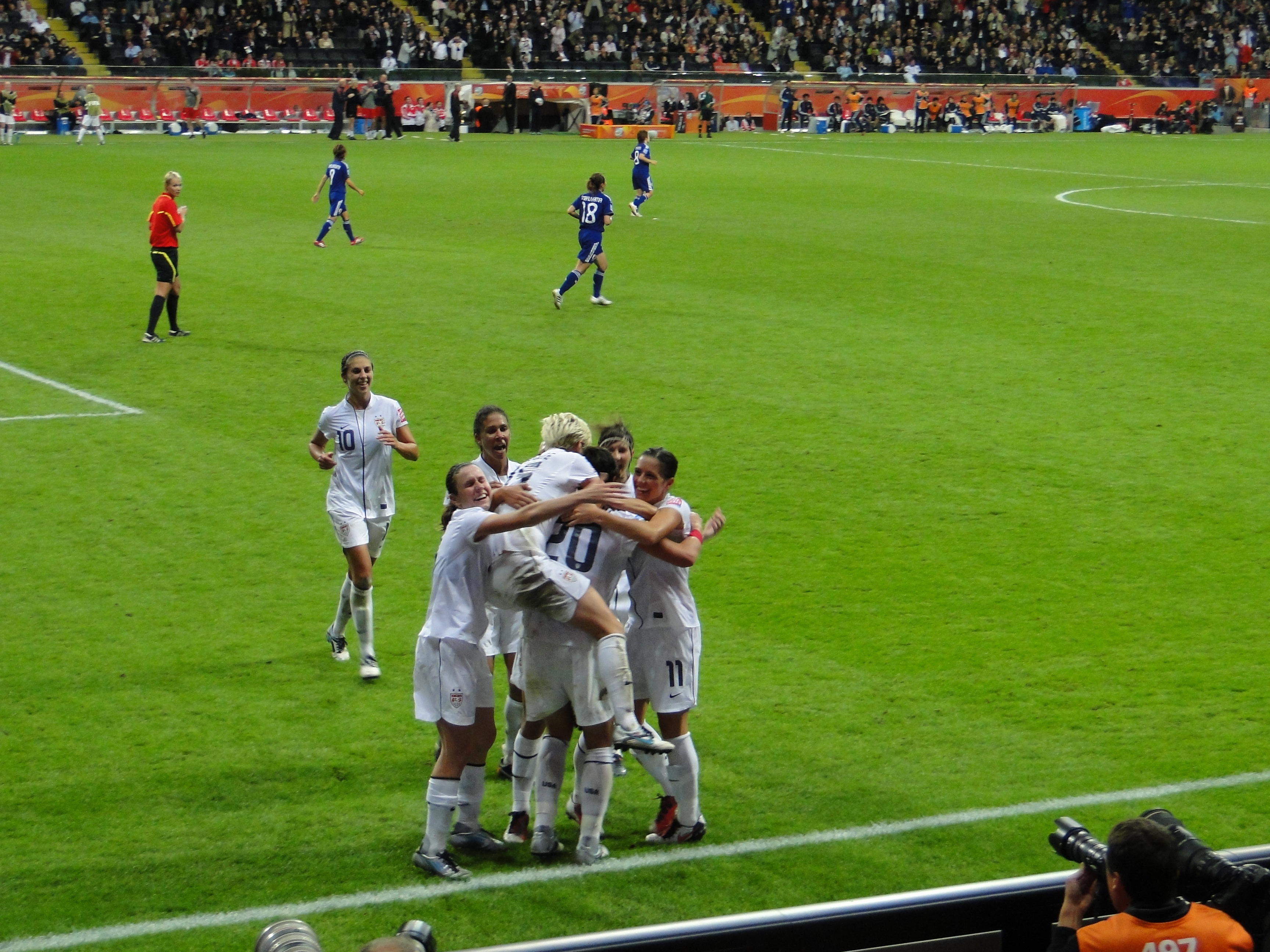 USA players celebrates a goal.